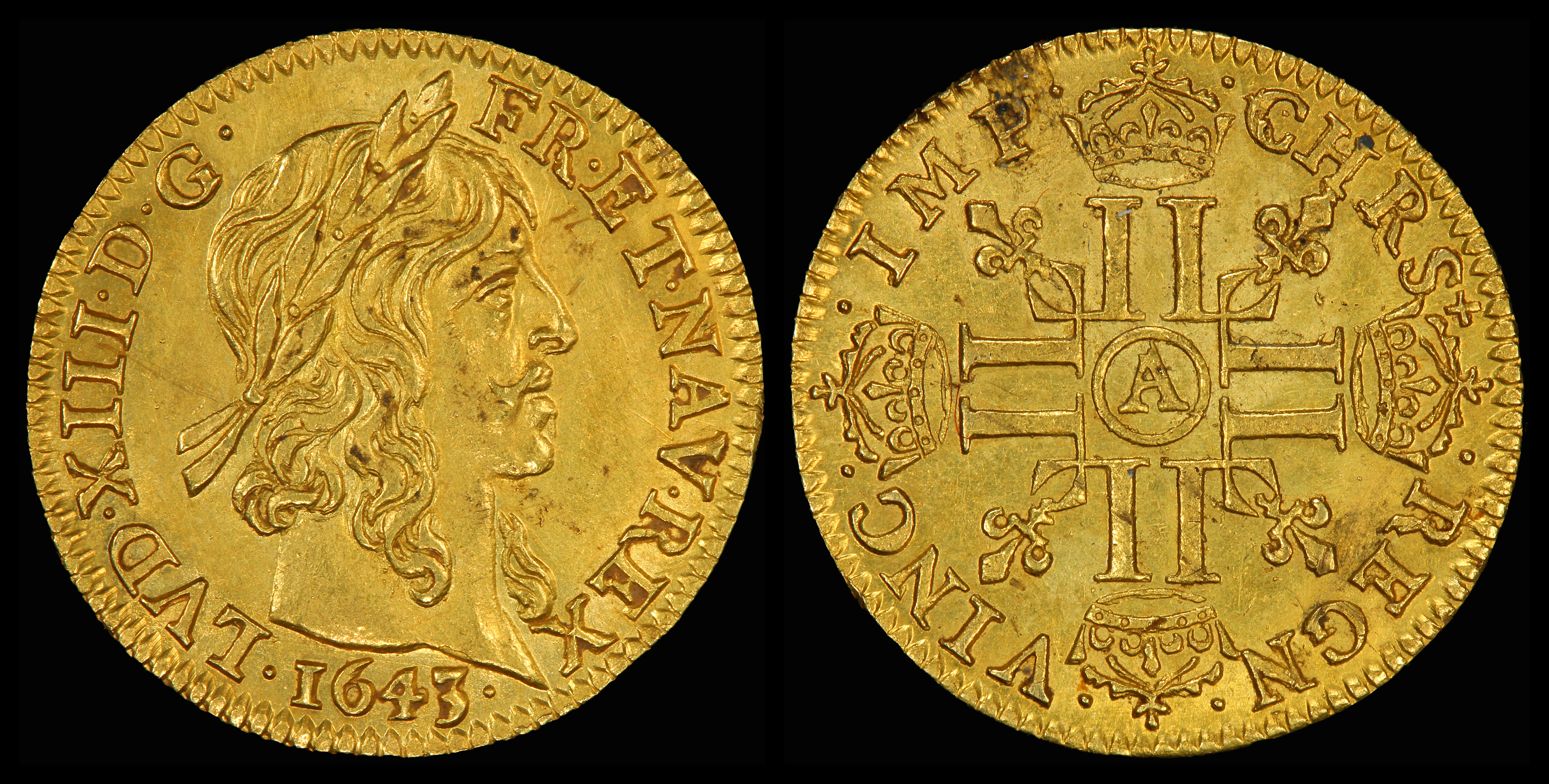 Half Louis d'Or (1643), depicting Louis XIII of France. This coin has a size of 20 mm and a weight of 3.34 g.